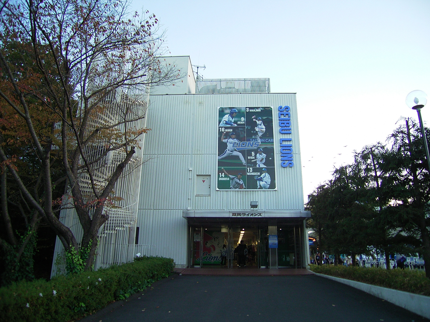 professional baseball team in Japan's Pacific LeagueSaitama Seibu Lions Seibu Lions baseball team.Tokorozawa office location Kami-Yamaguchi, Tokorozawa-City, Saitama 日本プロ野球 パ・リーグに加盟する埼玉西武ライオンズを運営する株式会社西武ライオンズ 所沢球団事務所。 所在地 埼玉県所沢市大字上山口